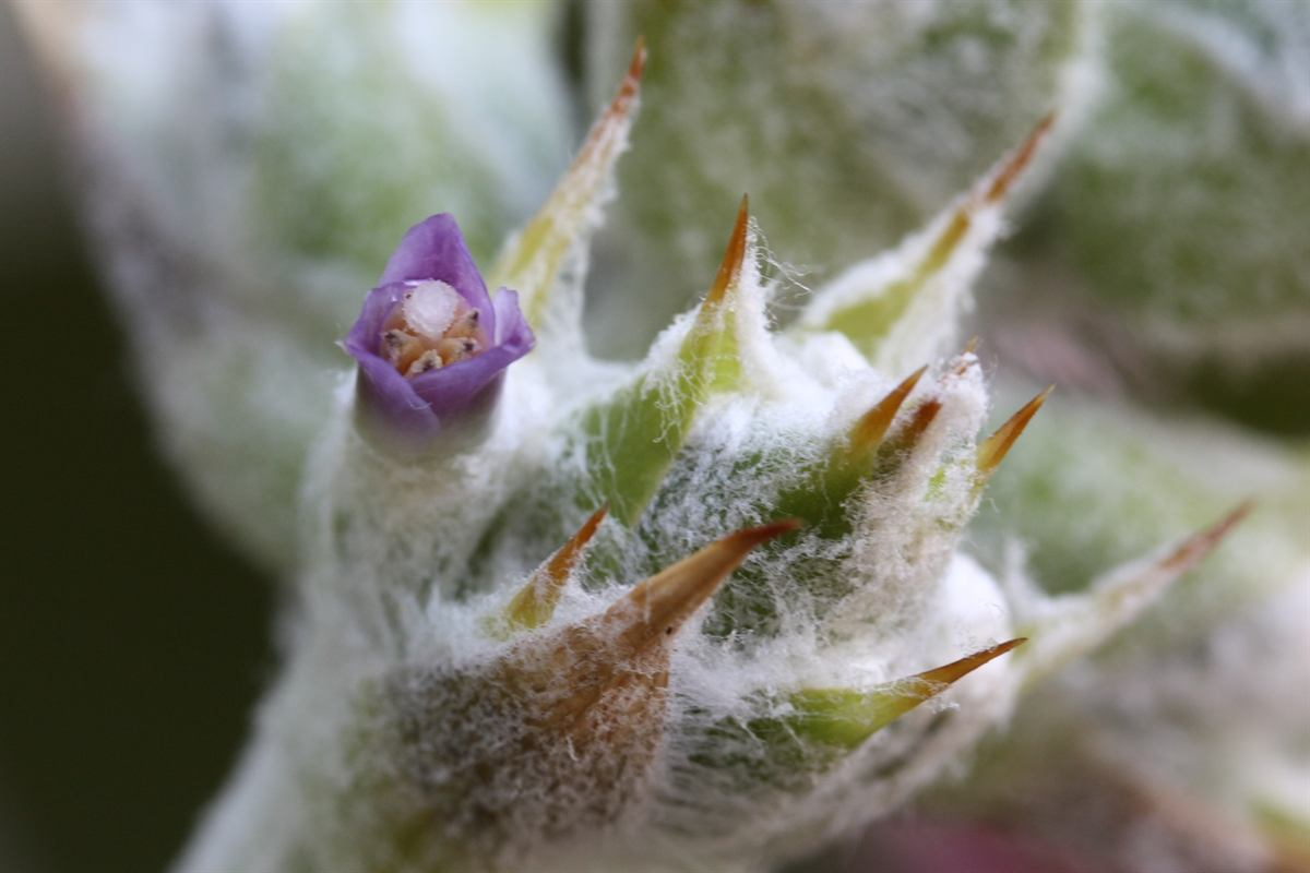 Hohenbergia edmundoi flower